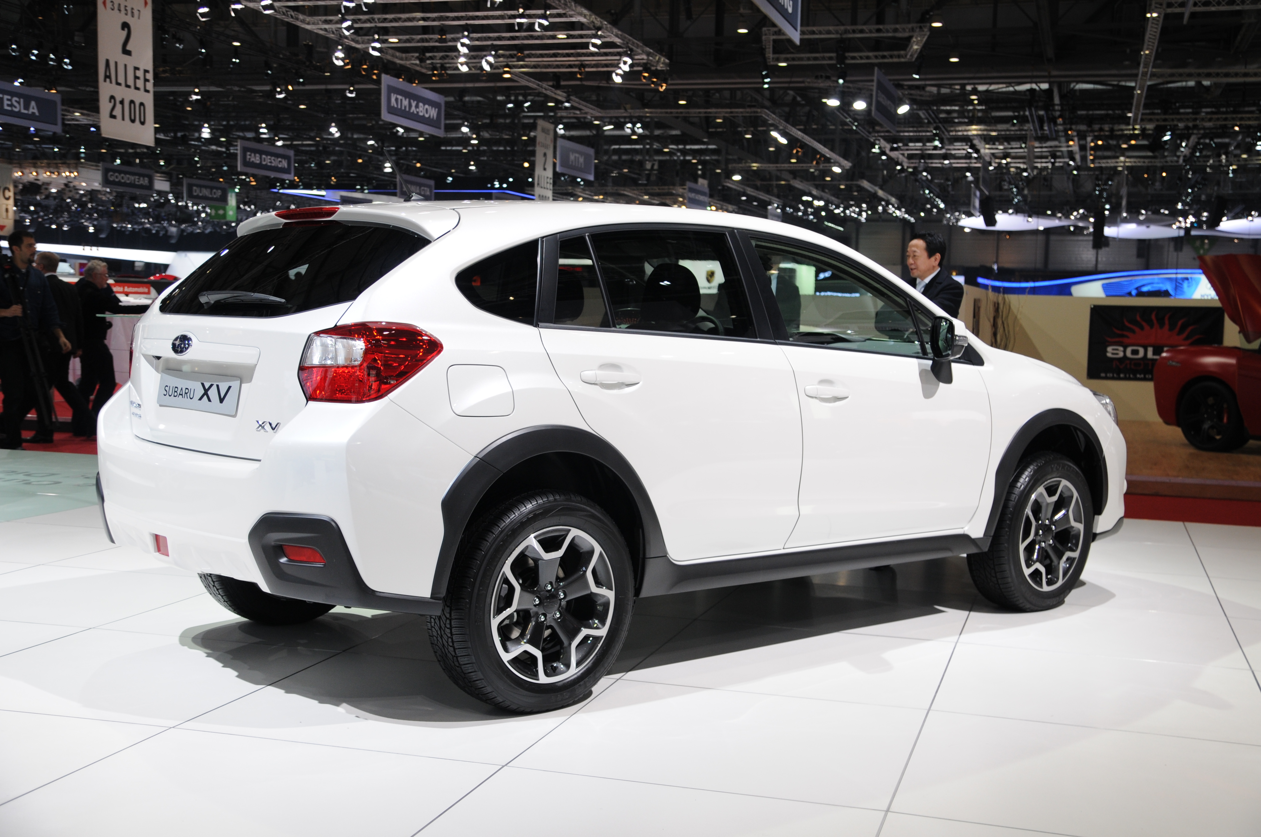 Geneva Motor Show 2013 (photos taken on the first press day)